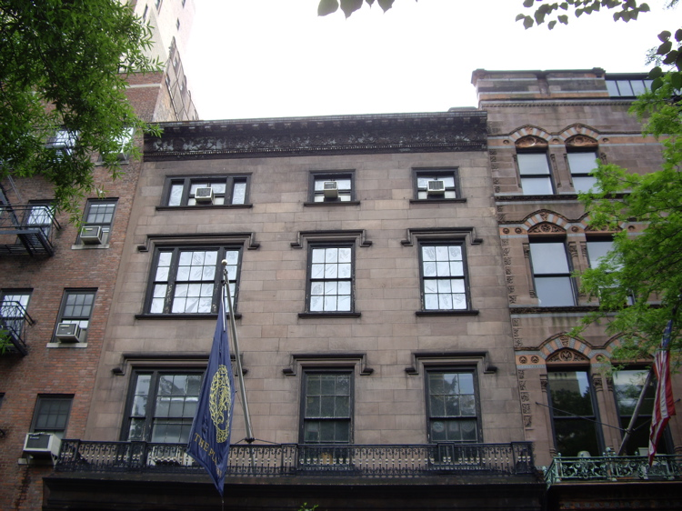 Players Club (lower floor under construction)